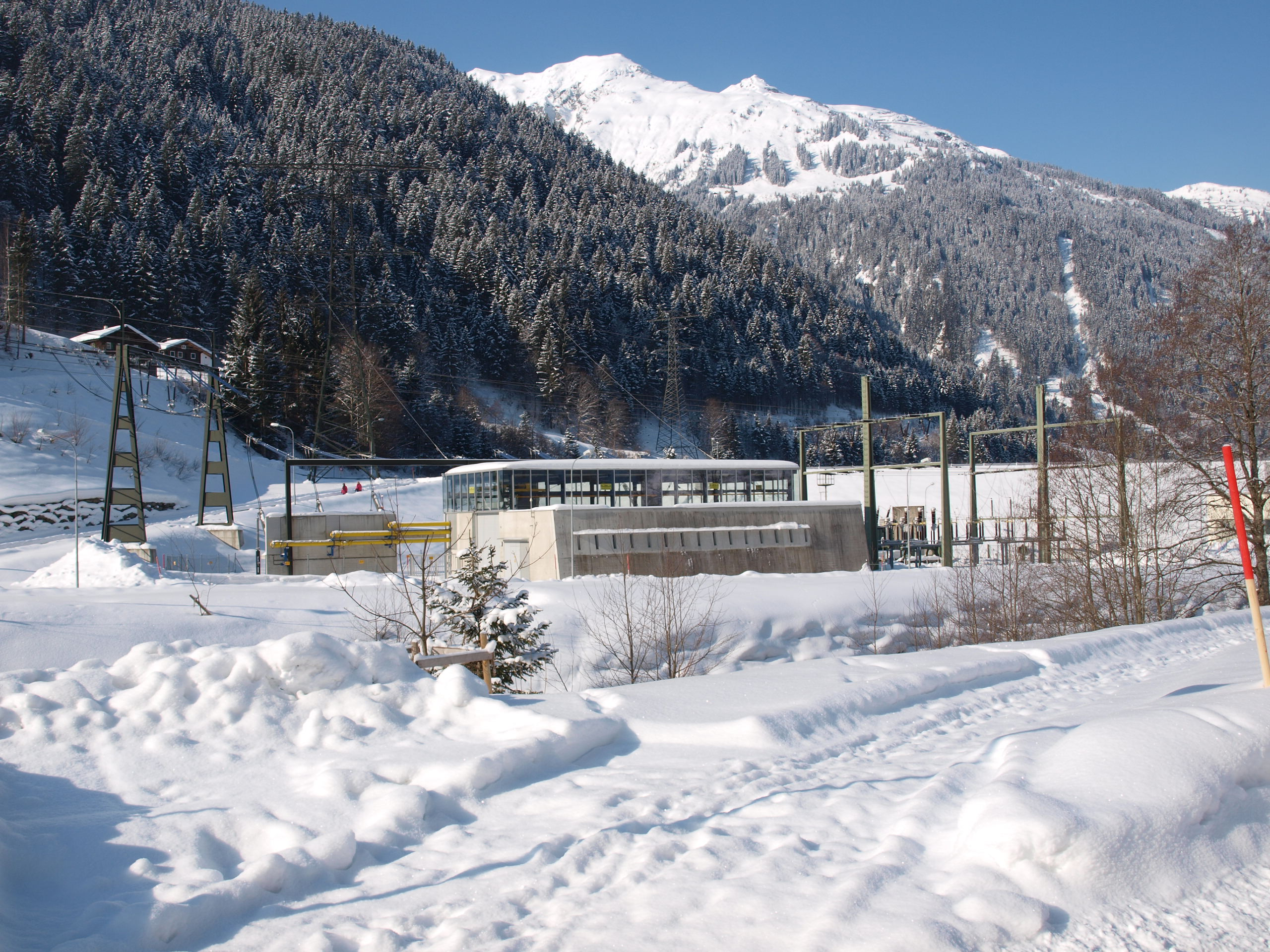 high-voltage switchgear (SF6) Rifa near Kopswerk II